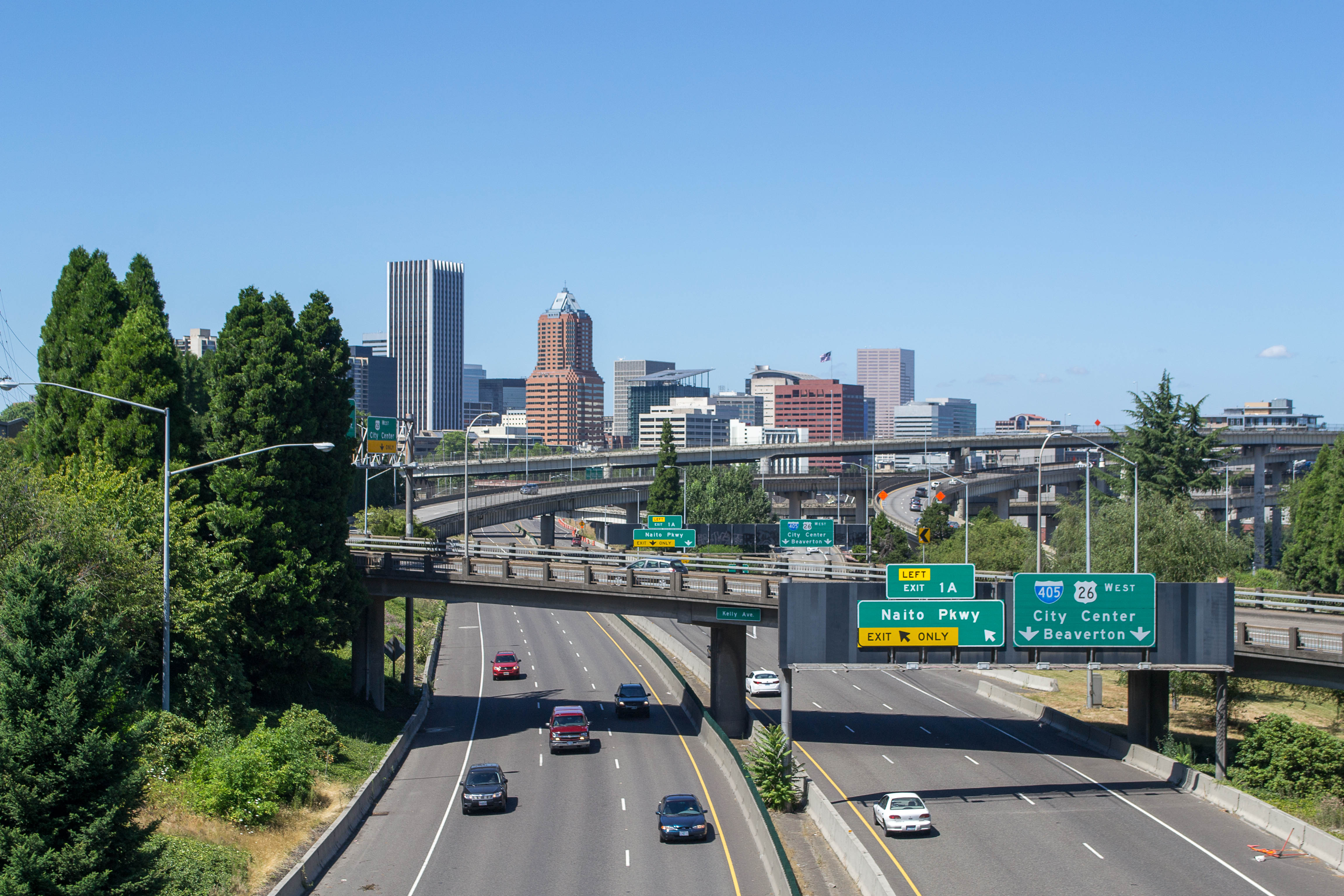 Portland seen from the westernmost section of the Ross Island Bridge, with Interstate 5 in the foreground and the viaducts of the southern I-5/I-405 interchange in the center of the view